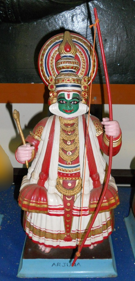 Arjuna kathakali doll